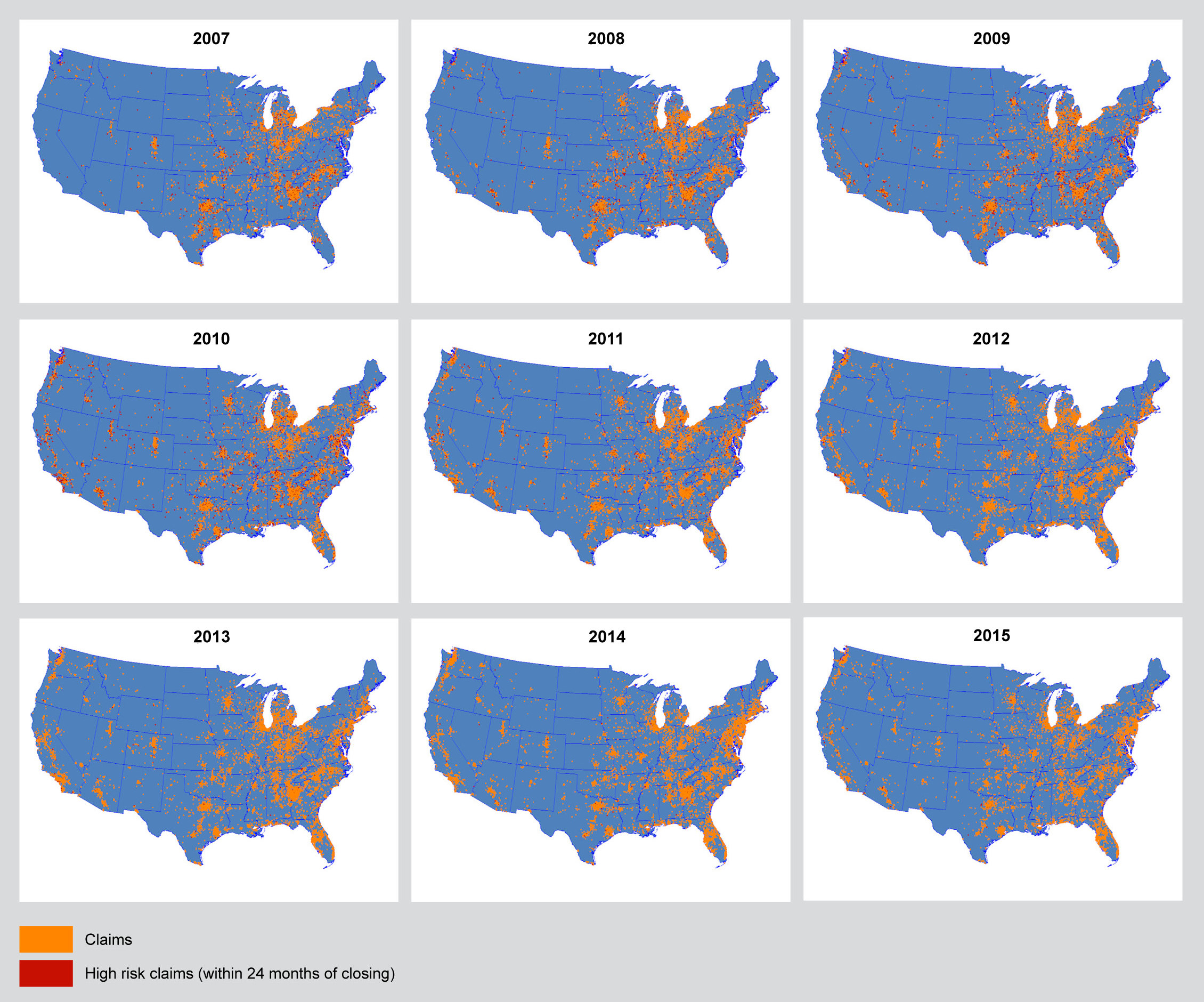 This image is excerpted from a U.S. GAO report: Data Analytics to Address Fraud and Improper Payments Note: Each map represents FHA mortgage claim data from the first quarter of the year.